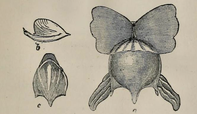 Cavolinia tridentata (Forskål, 1775); Cavoliniidae; a) shell and animal b) side view of the shell c) dorsal view of the shell